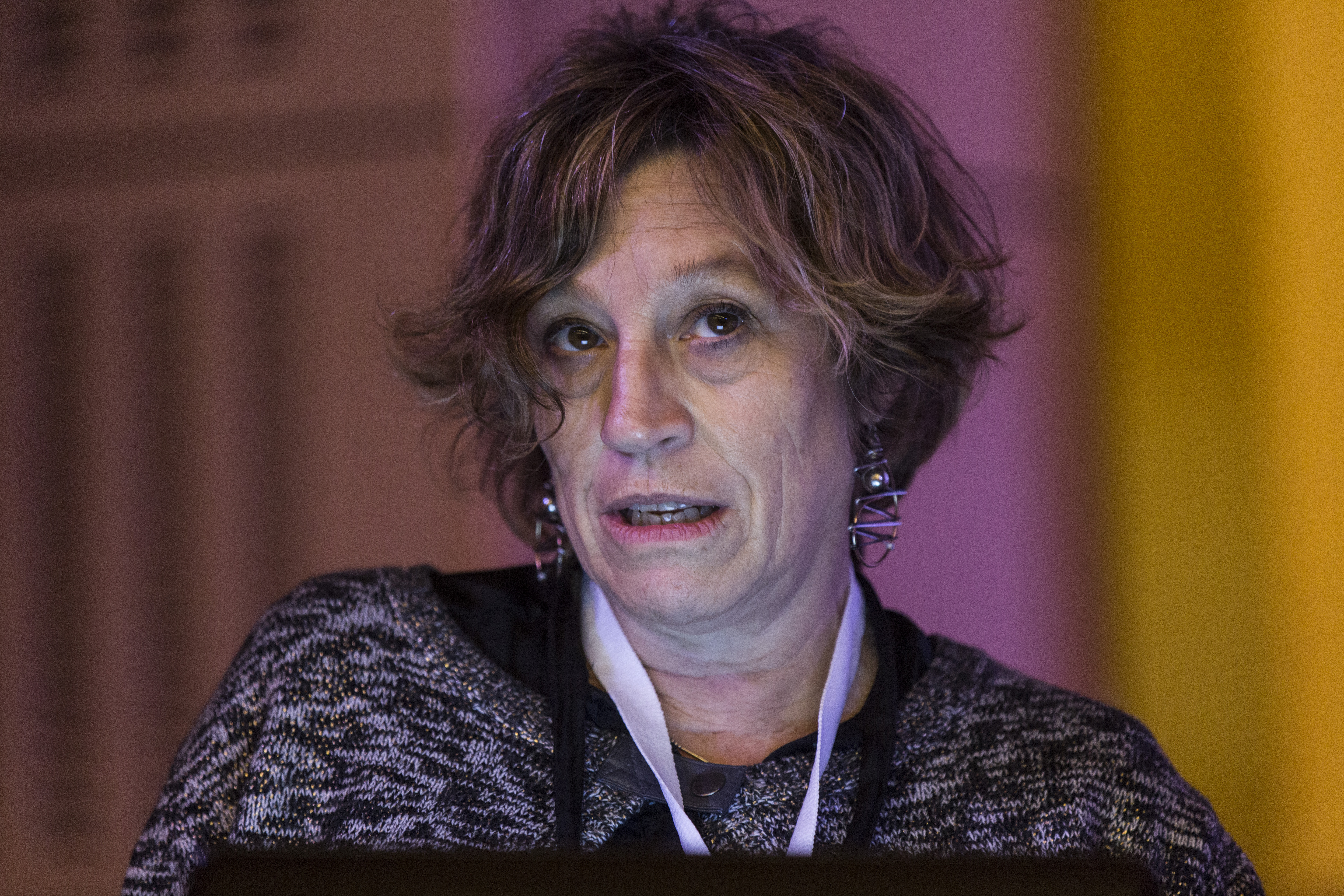 Buenos Aires, 12 de agosto de 2015 - En el marco del Primer Encuentro Nacional de Patrimonio Vivo, sse llevó a cabo la charla "¿El patrimonio tiene género? a cargo de Susana Rostagnol, organizado por el Ministerio de Cultura a travéz de la Subsecretaría de Cultura Pública y Creatividad. Fotos: Romina Santarelli / Ministerio de Cultura de la Nación.